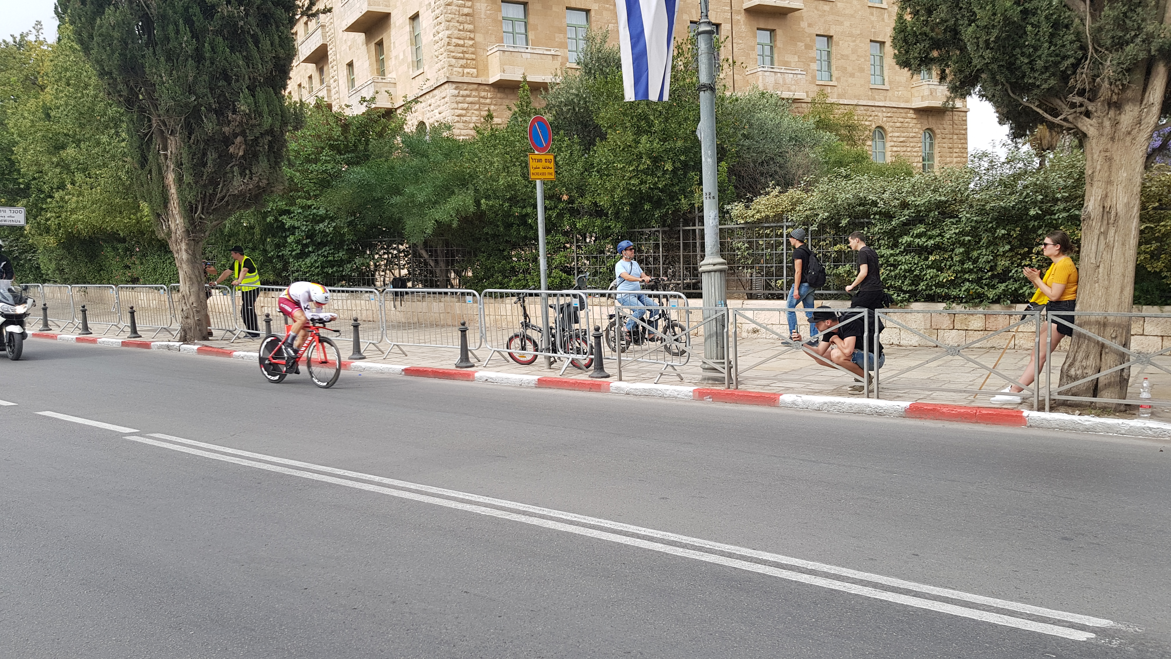 Giro d'Italia race Jerusalem 2018. king David street.